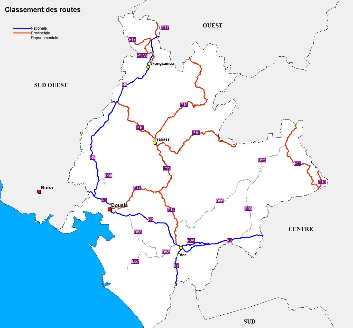 Cameroon Roads West